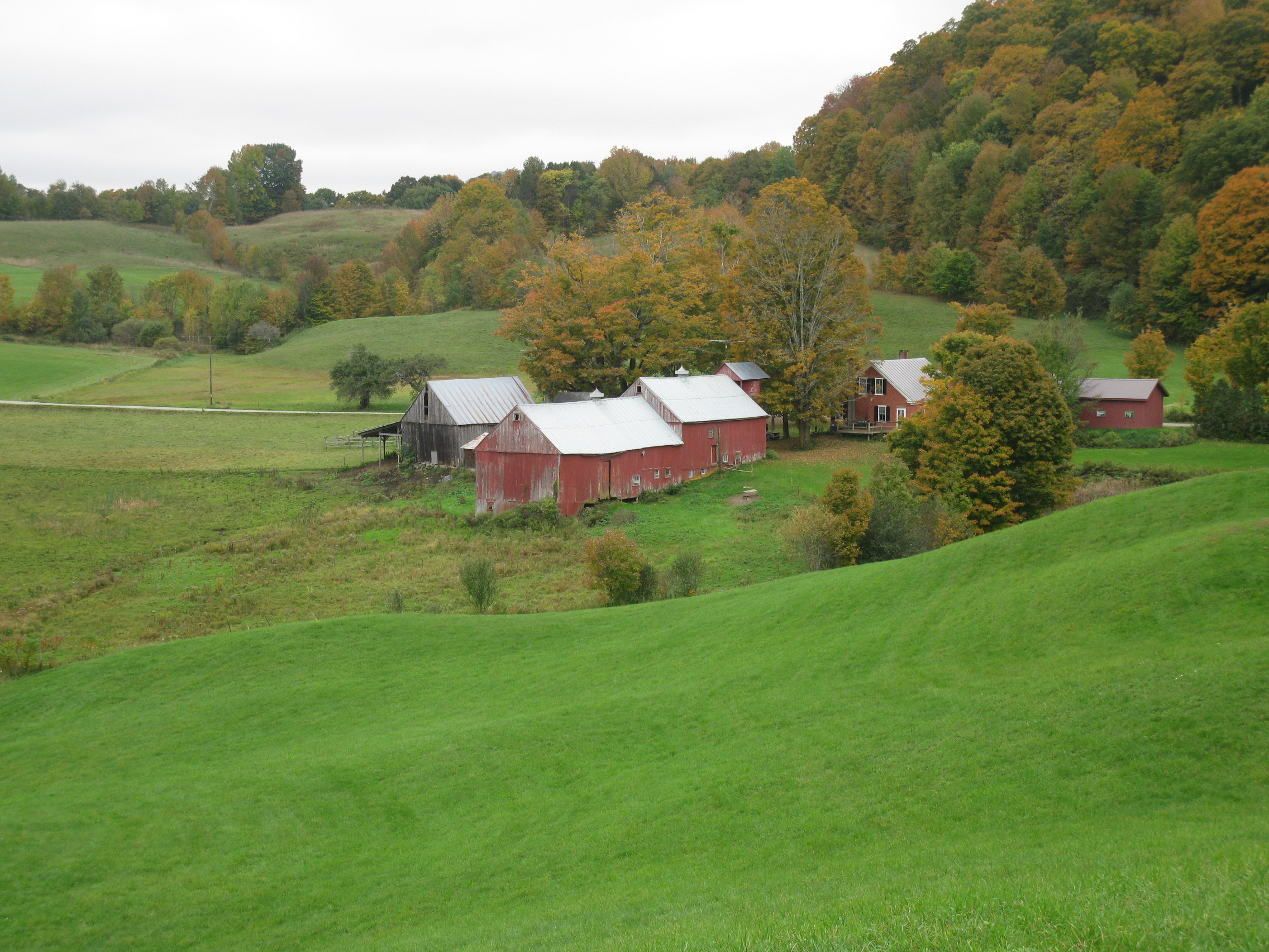 Jenne Farm 10/6/2018